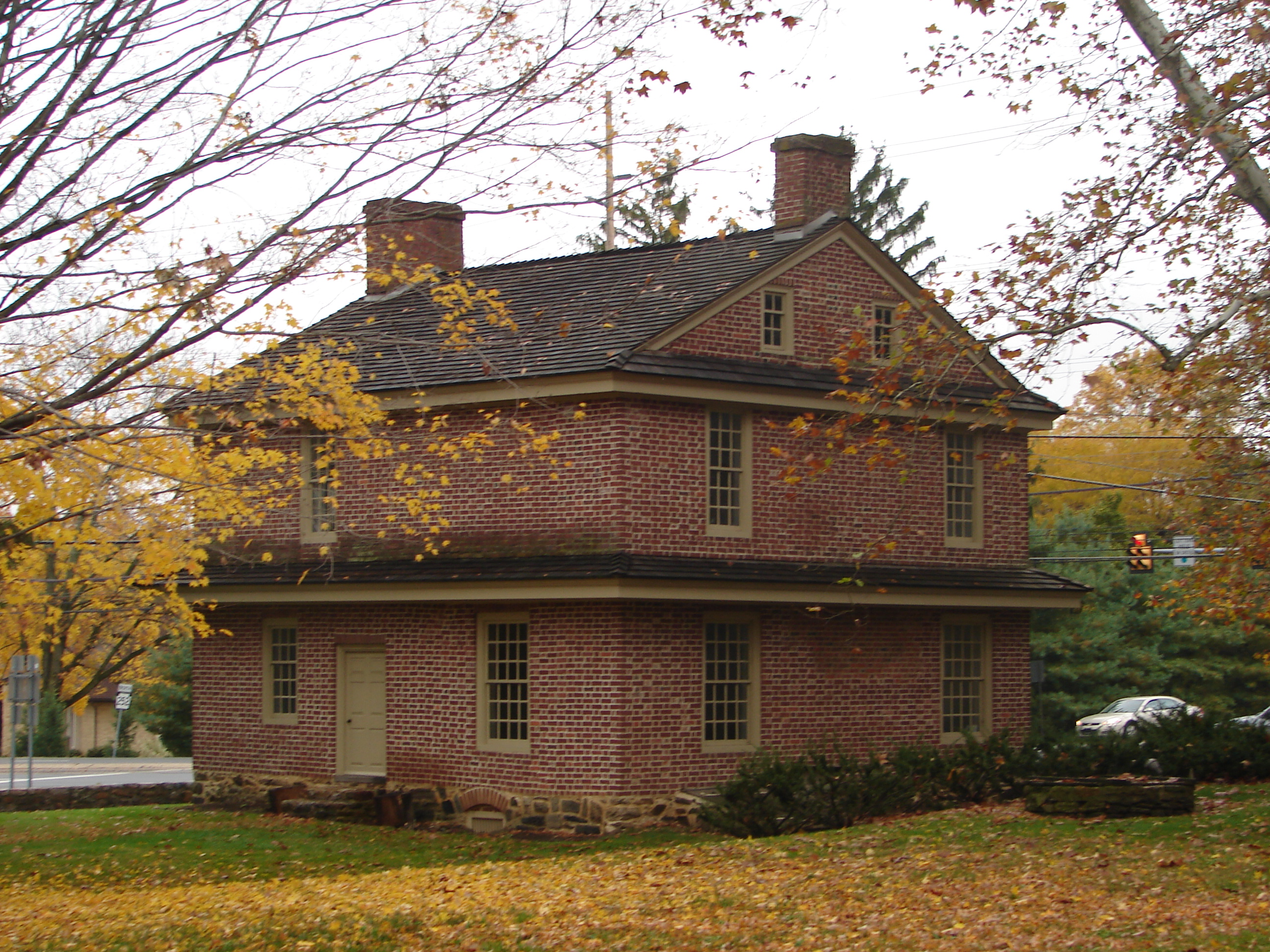 Square Tavern in Newtown Township, Delaware County, Pennsylvania, on the NRHP since September 7, 1984. At Newtown Street Road and Goshen Road in Newtown Square. Benjamin West's father owned this tavern.